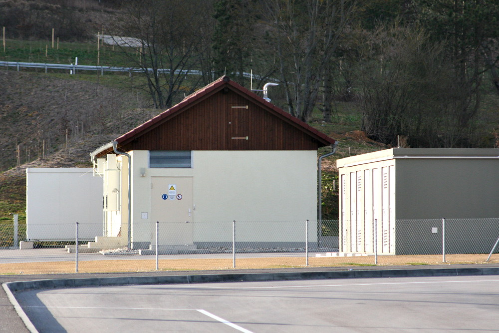 A remote-controlled signal box at the train station of Kinding, Nuremberg–Ingolstadt high-speed railway line